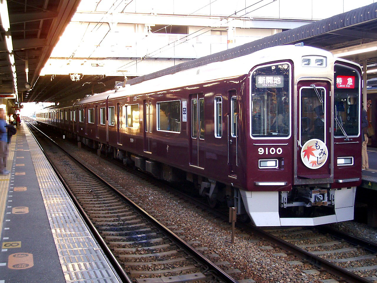 Hankyu Railway 9000series Electric Car Momiji（Maple）Headmark version 阪急電鉄9000系電車もみじヘッドマークバージョン